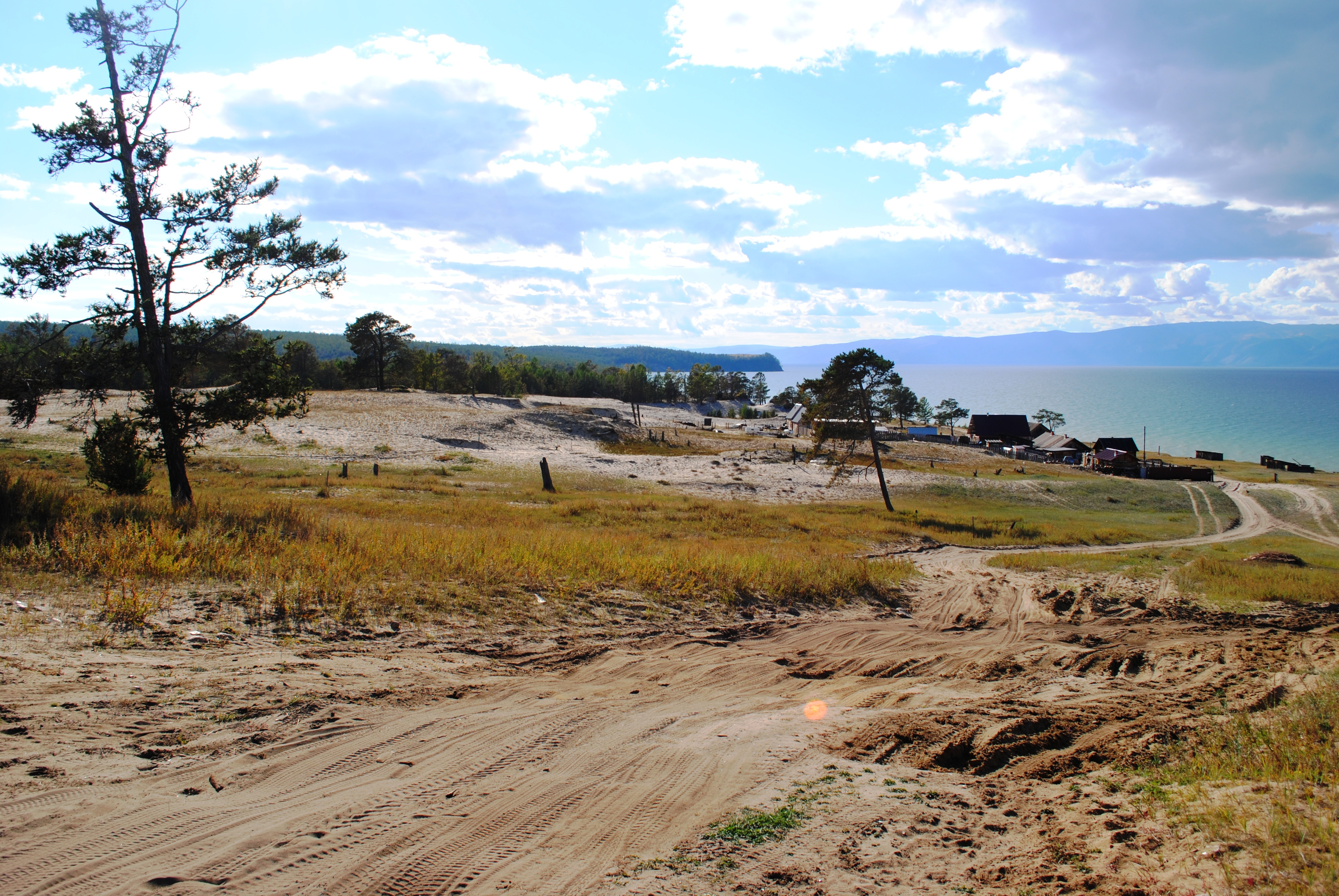 Olkhon